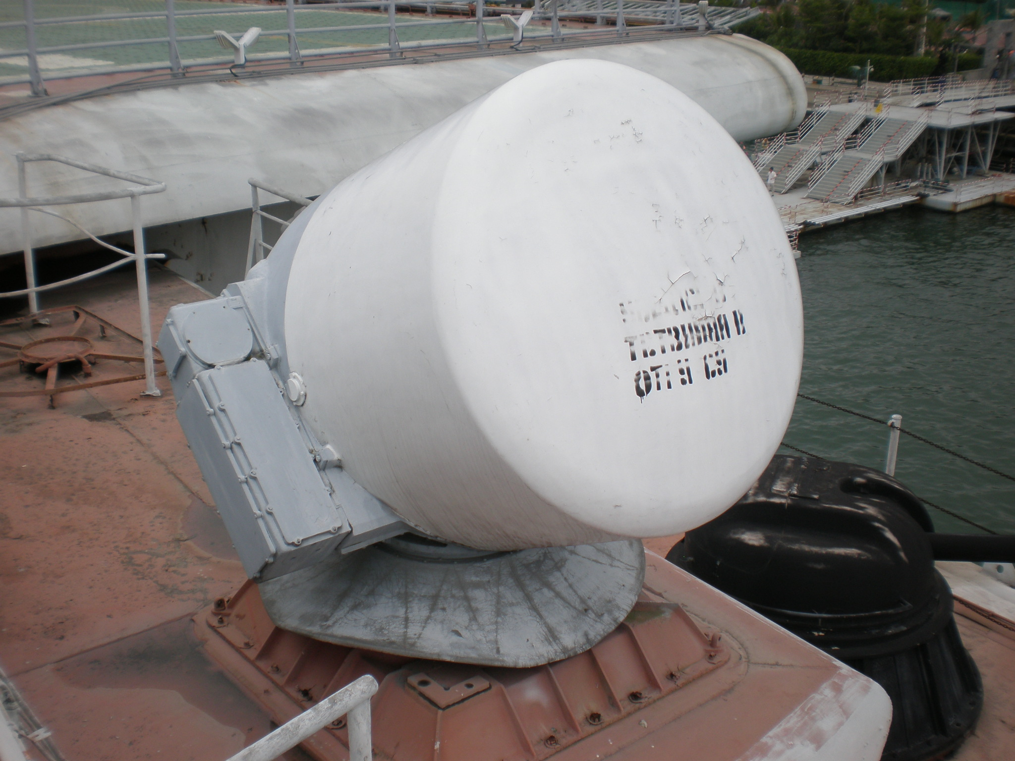 Vympel-A MR-123 Fire control radar for a pair of AK-630 CIWS guns on the port side of the bow of the aircraft carrier Minsk, located at the Minsk World theme park in Shenzhen, PRC. See Image:Minsk port bow.JPG.